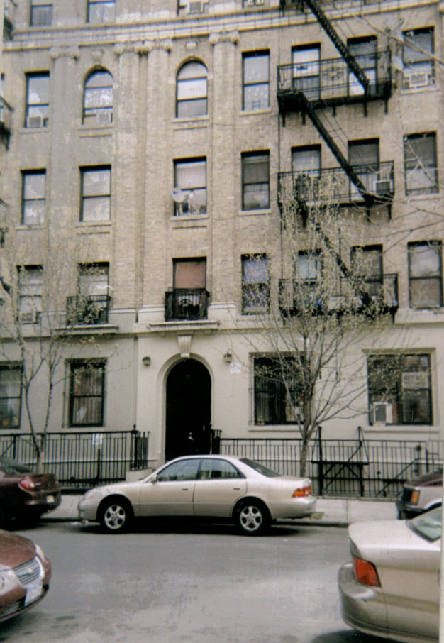 This building was built in 1909 and is located at 976 Simpson Street in the Bronx, New York. The building is where Tony Santiago lived the first 13 years of his life. It is conserved by the Bronx as historical because of its architectural features.